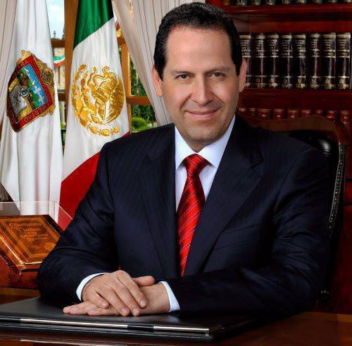 Government Eruviel